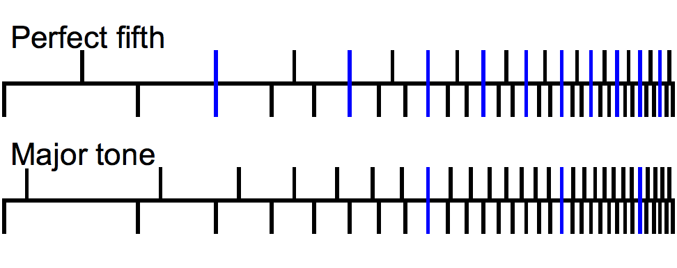 Harmonic series of a perfect unison lined up with that of a just perfect fifth (3/2), then the same for PU and a just major second (9/8).